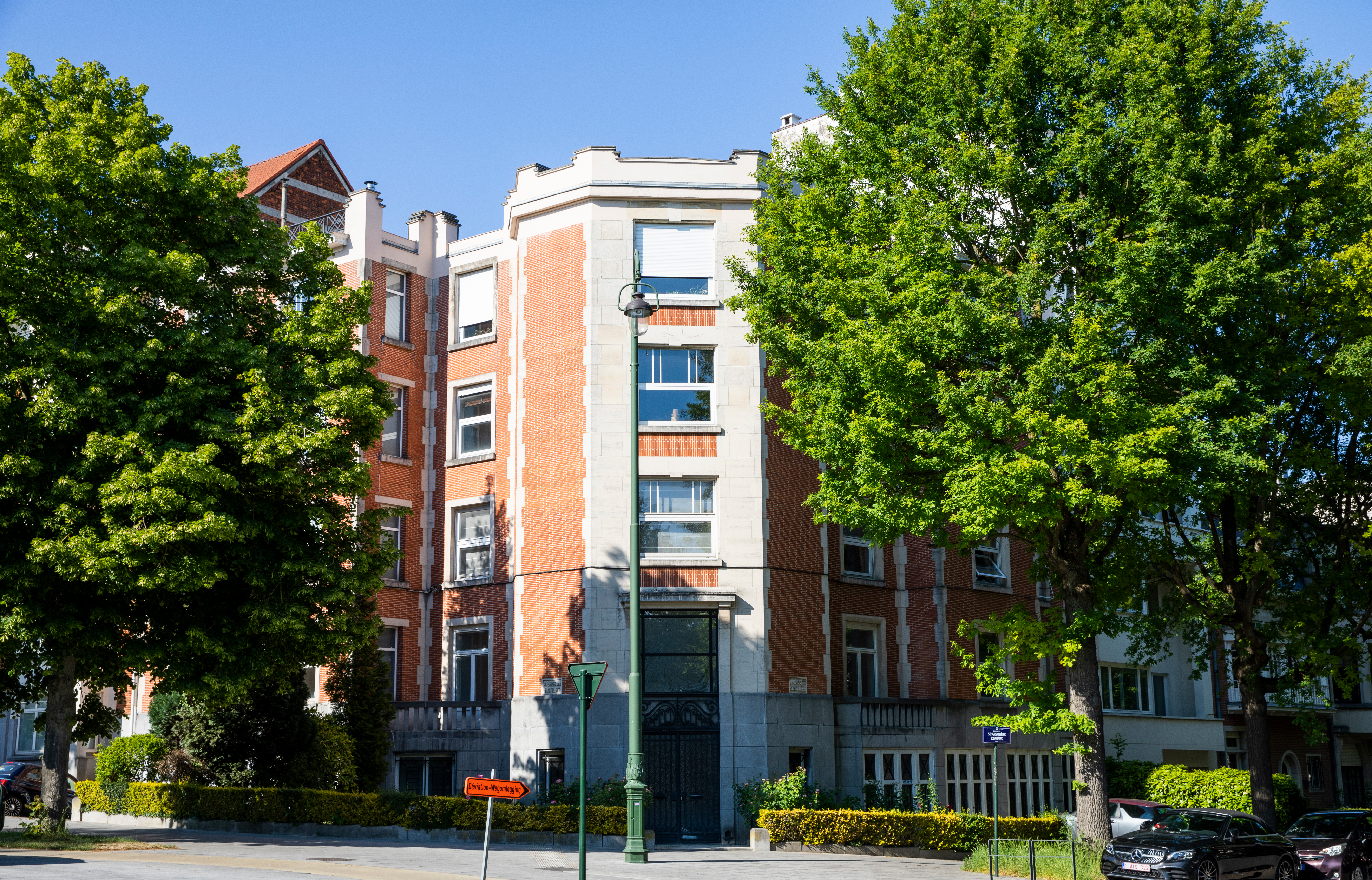 Apartment building at 110 Avenue Franklin Roosevelt in Brussels by architect Antoine Varlet